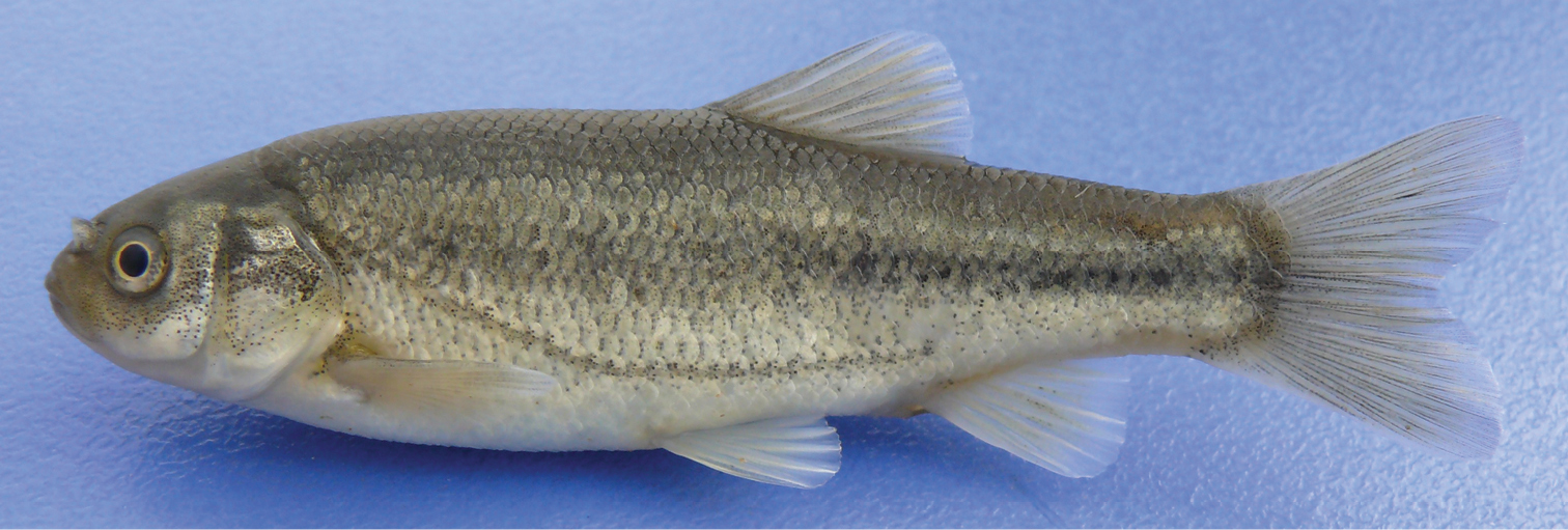 Pseudophoxinus burduricus. IFC-ESUF 0428, paratype, 65.82 mm SL, female; Turkey: Değirmendere Creek, Burdur.